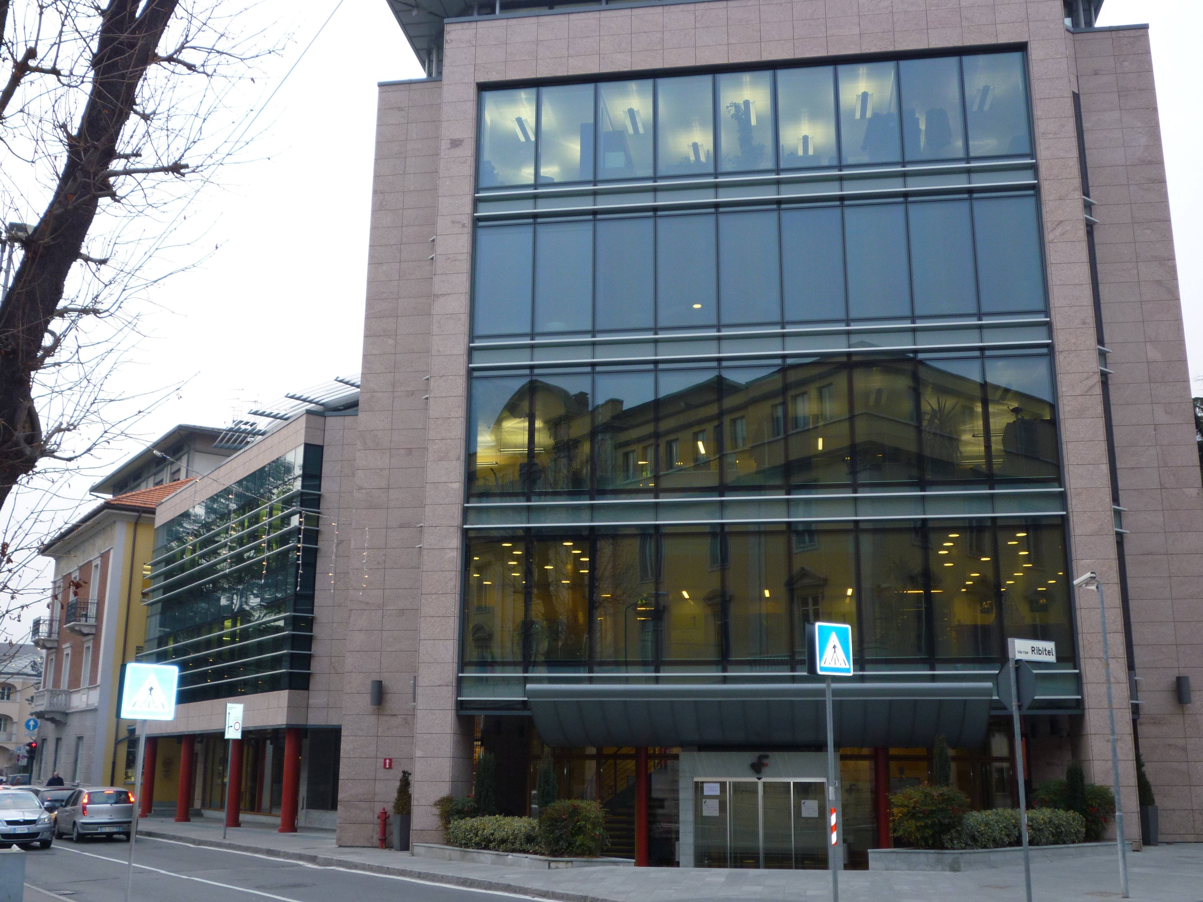 Finaosta building in Aosta/Aoste (Italy)